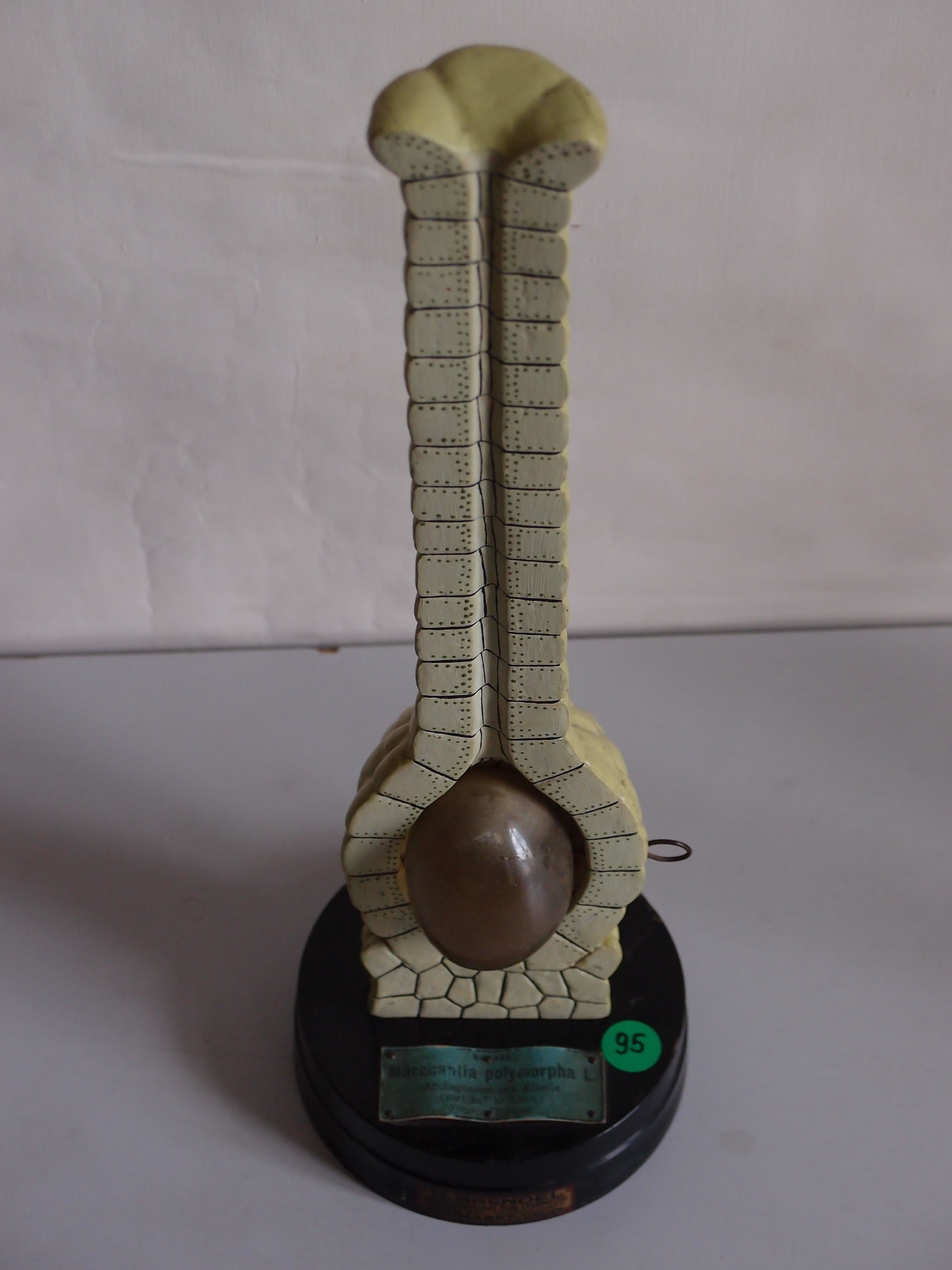 Model from the collection of the Botanical Museum in Greifswald, Germany. . see also for more information on the models